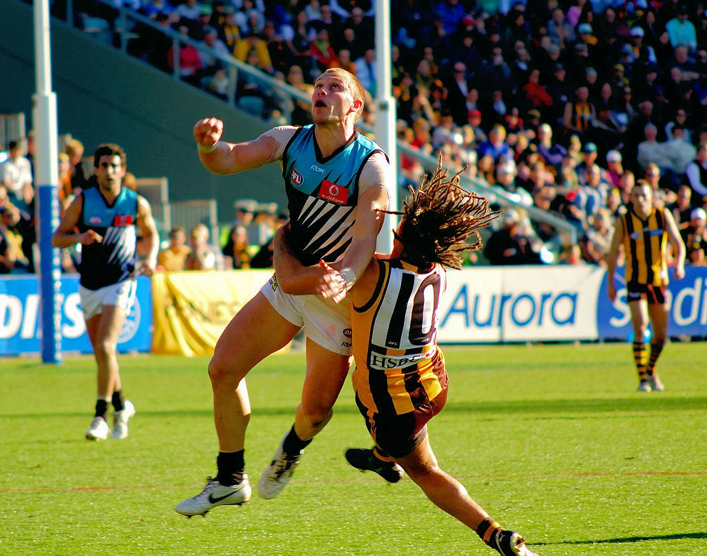 Hawks v Port Adelaide, AS